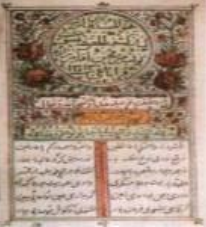 Заглавная страница книги «Кашфуль хагига» Мир Мохсуна Навваба. Художественное оформление и каллиграфическое письмо выполнены автором. 1894 год. Шуша.